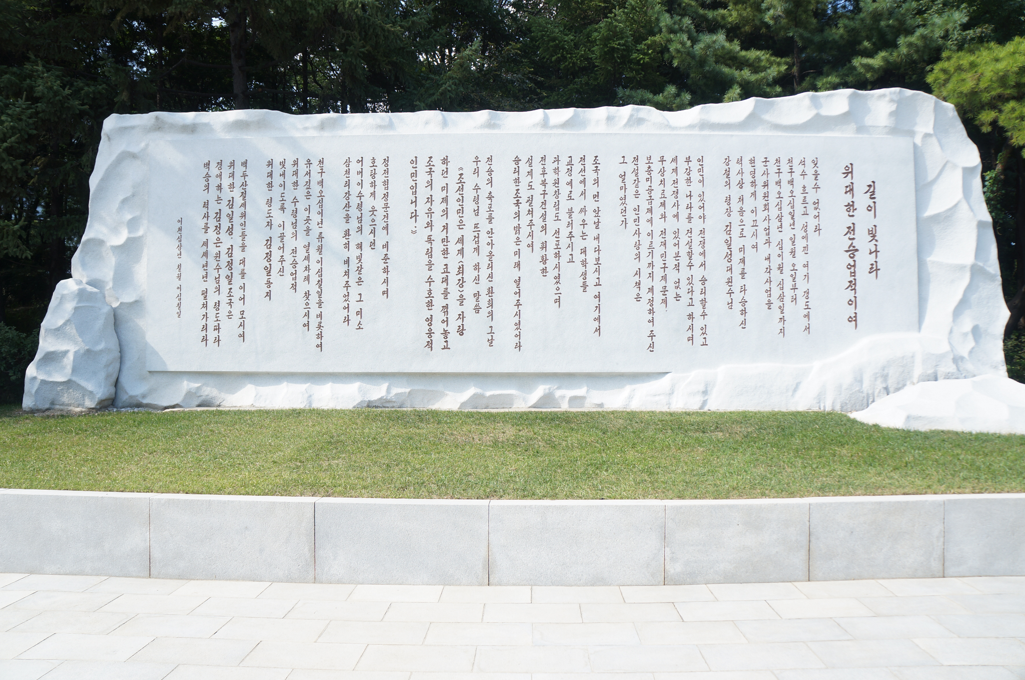 This is presently the one and only mural in all of North Korea that contains the names of all 3 leaders: Kim Il-sung, Kim Jong-il and Kim Jong-un. Former KPA Headquarters in Pyongyang, DPRK North Korea